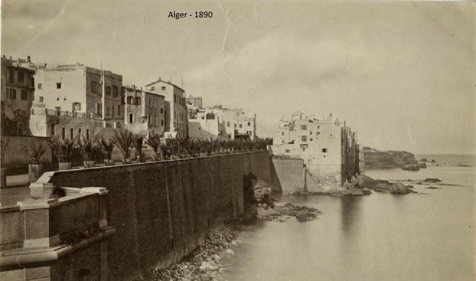 Rais Palace in 1890 Algiers, Algeria.